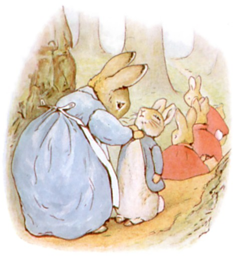 Illustration of Peter Rabbit with his family, from The Tale of Peter Rabbit